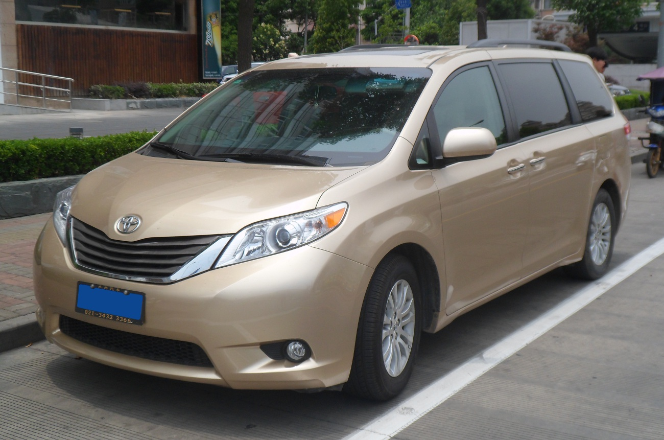 Toyota Sienna XL30 photographed in Shanghai, China.